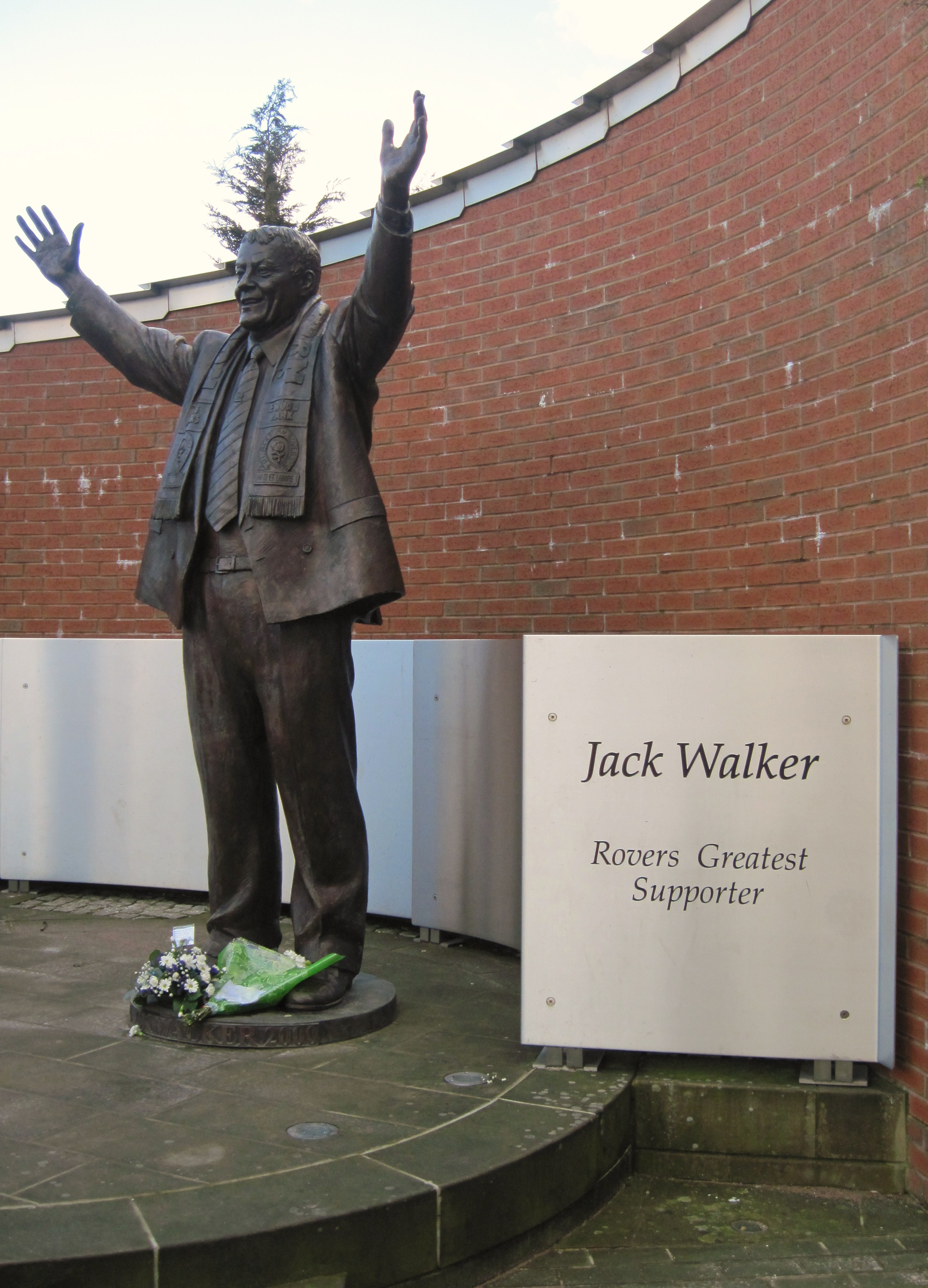 Jack Walker Memorial, Ewood Park, Blackburn